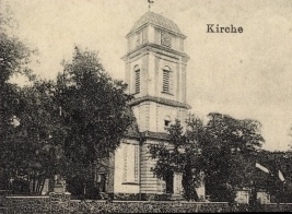 Church of Groß Gandern